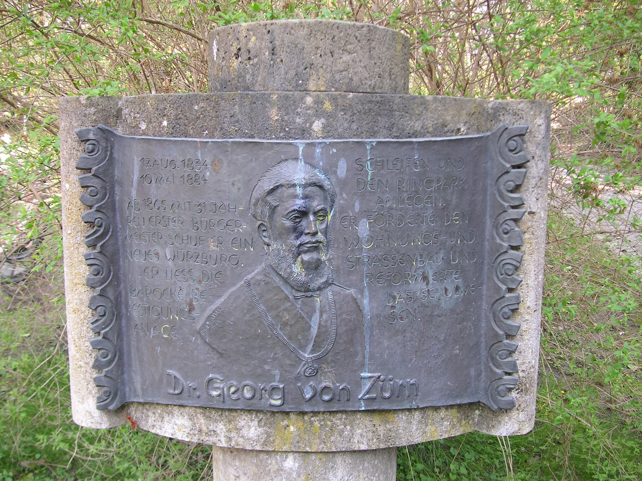 Dr. Georg von Zürn former mayor of Würzburg.